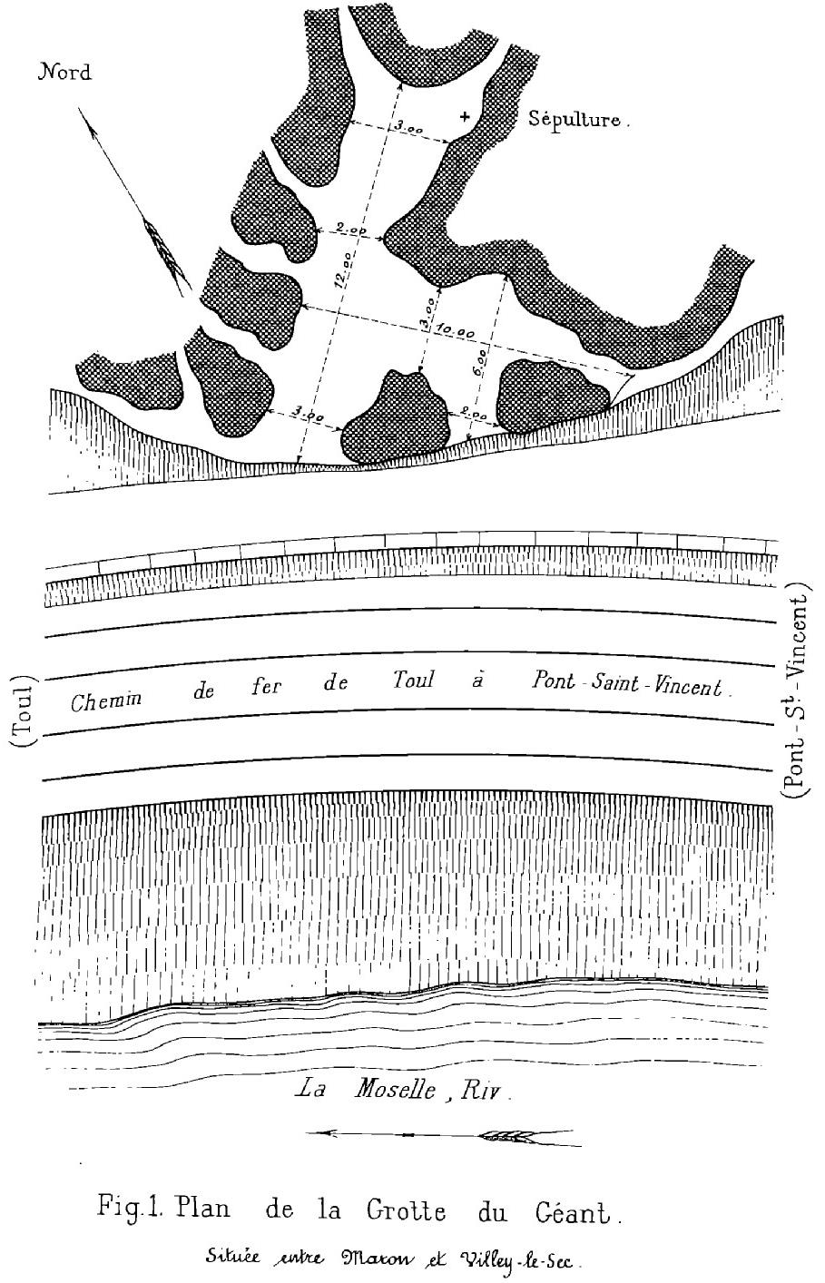 Plan of the Cave of the Giant published by Count Jules Beaupré in 1901 in "Note sur une sépulture de l'époque néolithique découverte en 1900 dans la grotte du Géant"